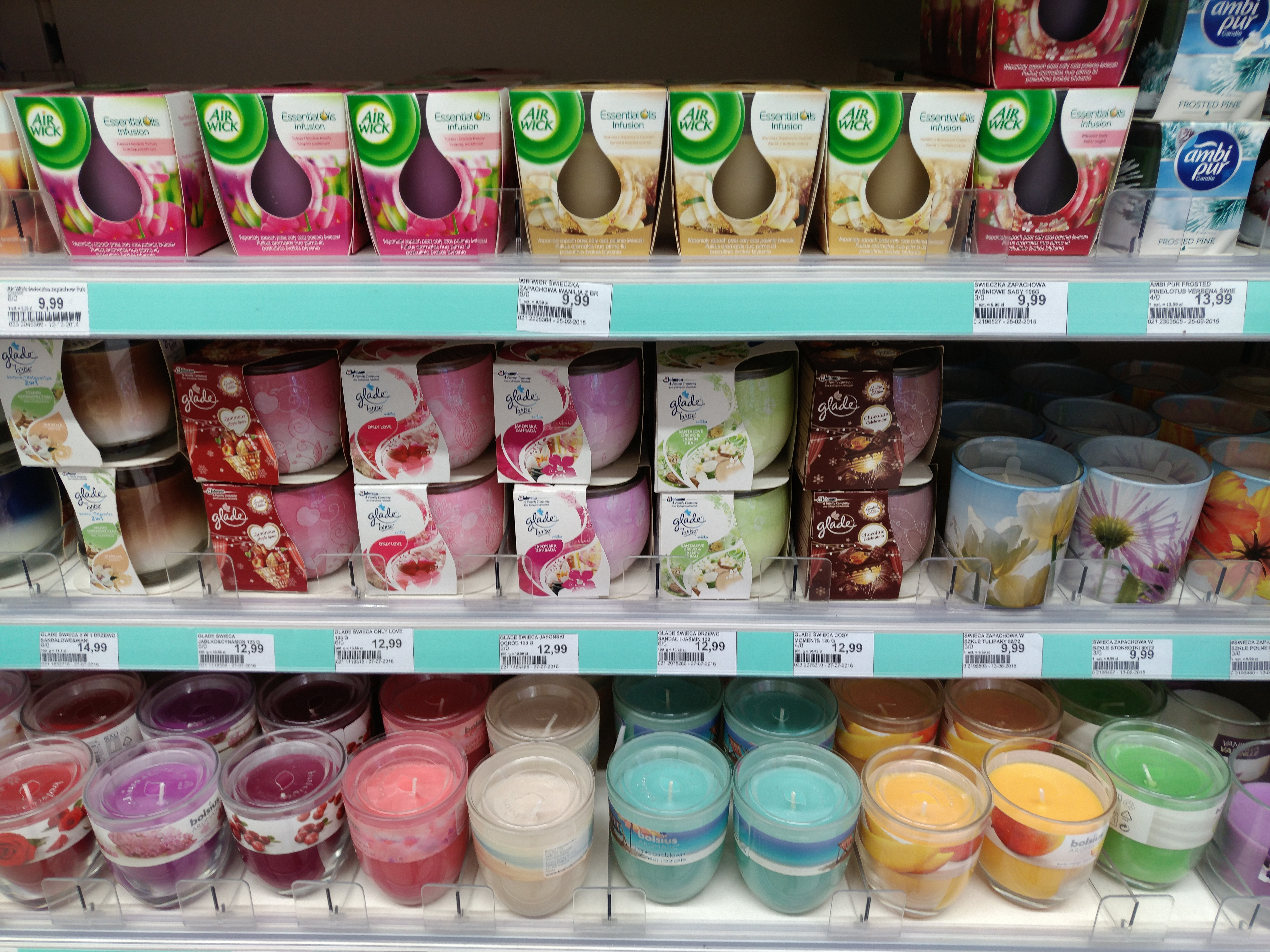 Aromatic candles